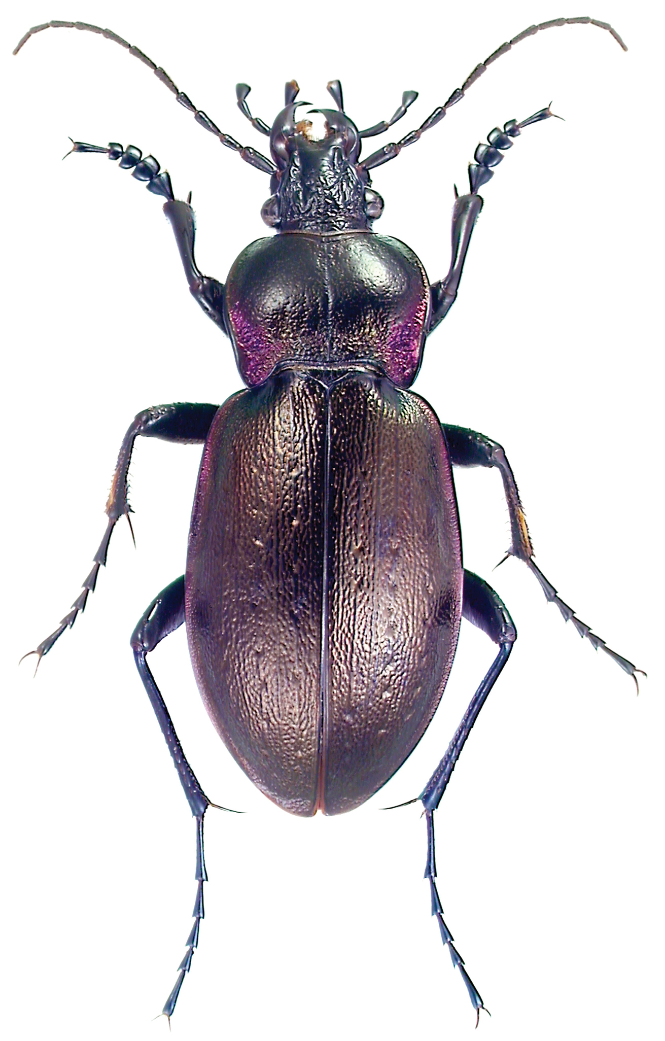 Carabus nemoralis Müller. This European species was first discovered on this continent in New Brunswick around 1890 and was recovered on the west side of Lake Ontario in 1919 and in southeastern Wisconsin by 1934. Unless the species went undetected for a long period of time, these dates would suggest that the species spread westwards for an average of 38 km per year. This is highly improbable for a wingless species and therefore its spread on this continent was undoubtedly enhanced by human transport unless separate introductions occurred.